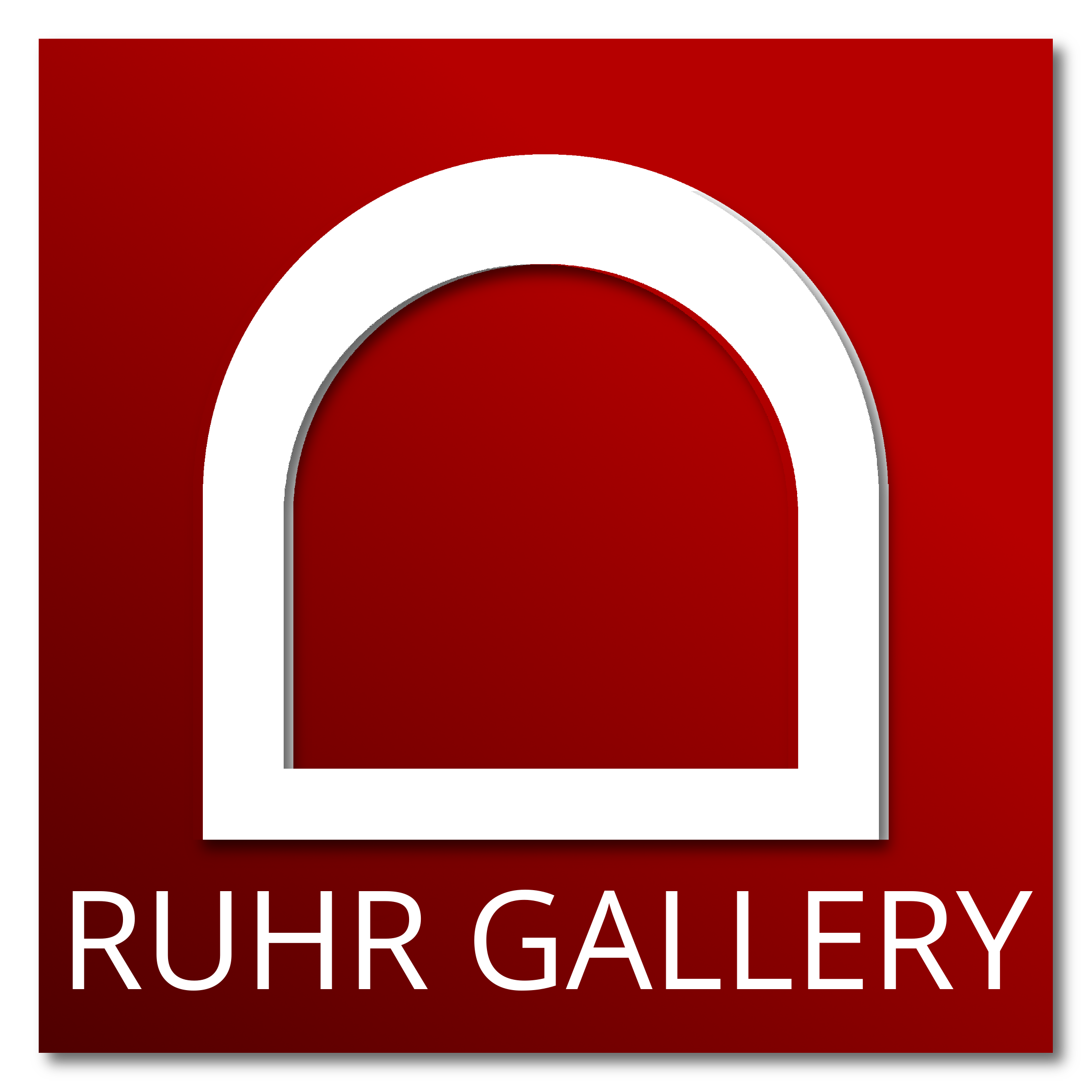 LOGO RUHR-GALLERY - Galerie an der Ruhr Muelheim, Germany